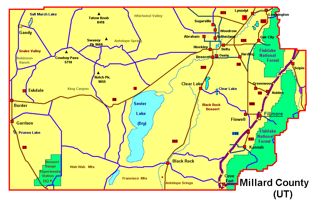 Millard County (Utah) Details, selfmade graphic by R. Blauert Dk4hb